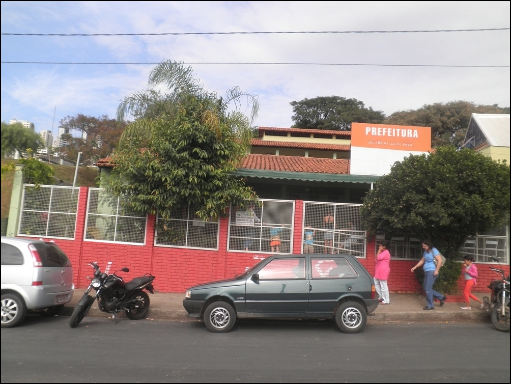 Posto de Saúde Estrela Dalva